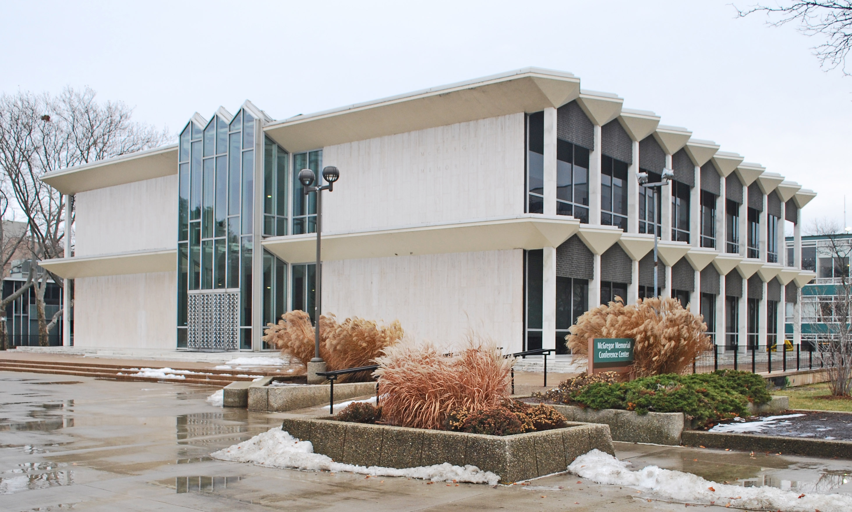 McGregor Center Wayne State Univ, Detroit MI